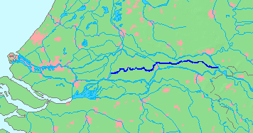 Location of a waterway (river/canal) in the Netherlands